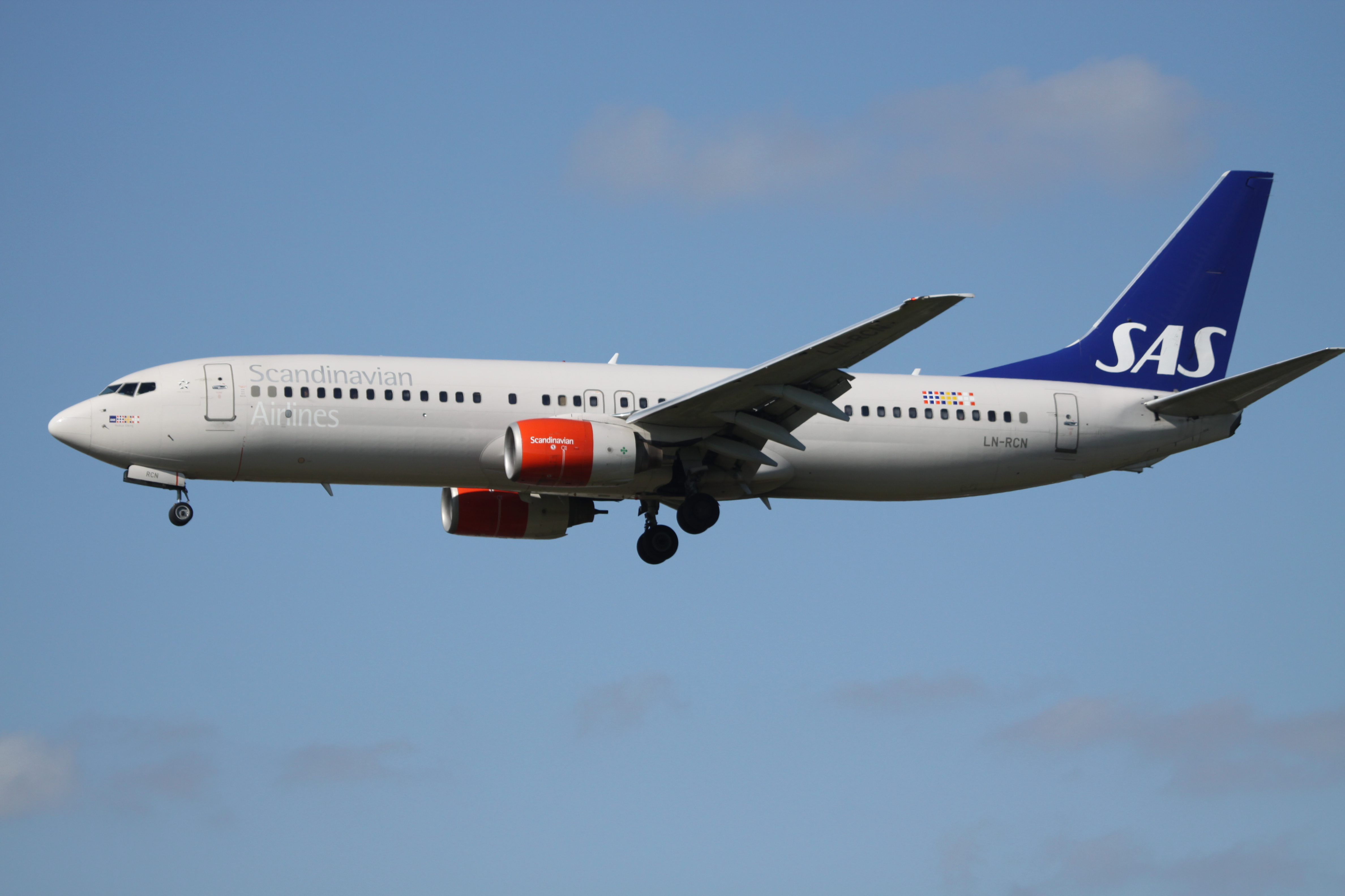 At London Heathrow